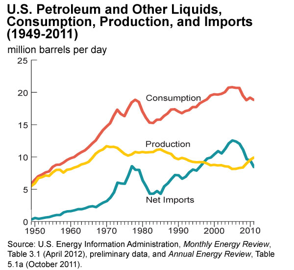 U.S. consumption, production, and import of petroleum and other liquids from 1949 to 2011 in millions of barrels/day.